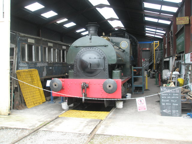 Engine shed at Washford Station, Peckett R3 Class, works number 1788, Kilmersdon.